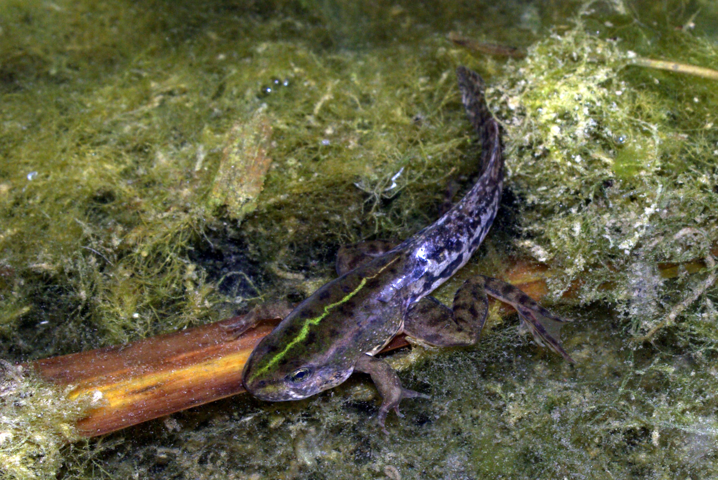 Perez's Frog (Pelophylax perezi). River Ubierna, Burgos (Spain).